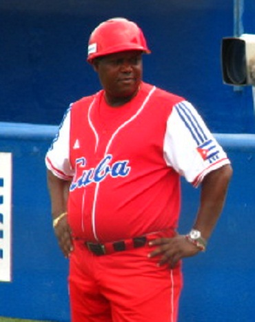 Omar Linares